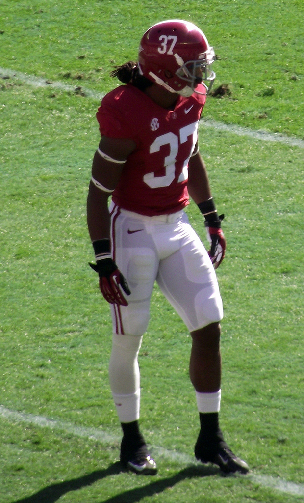 Alabama Crimson Tide football safety Robert Lester at Bryant–Denny Stadium.